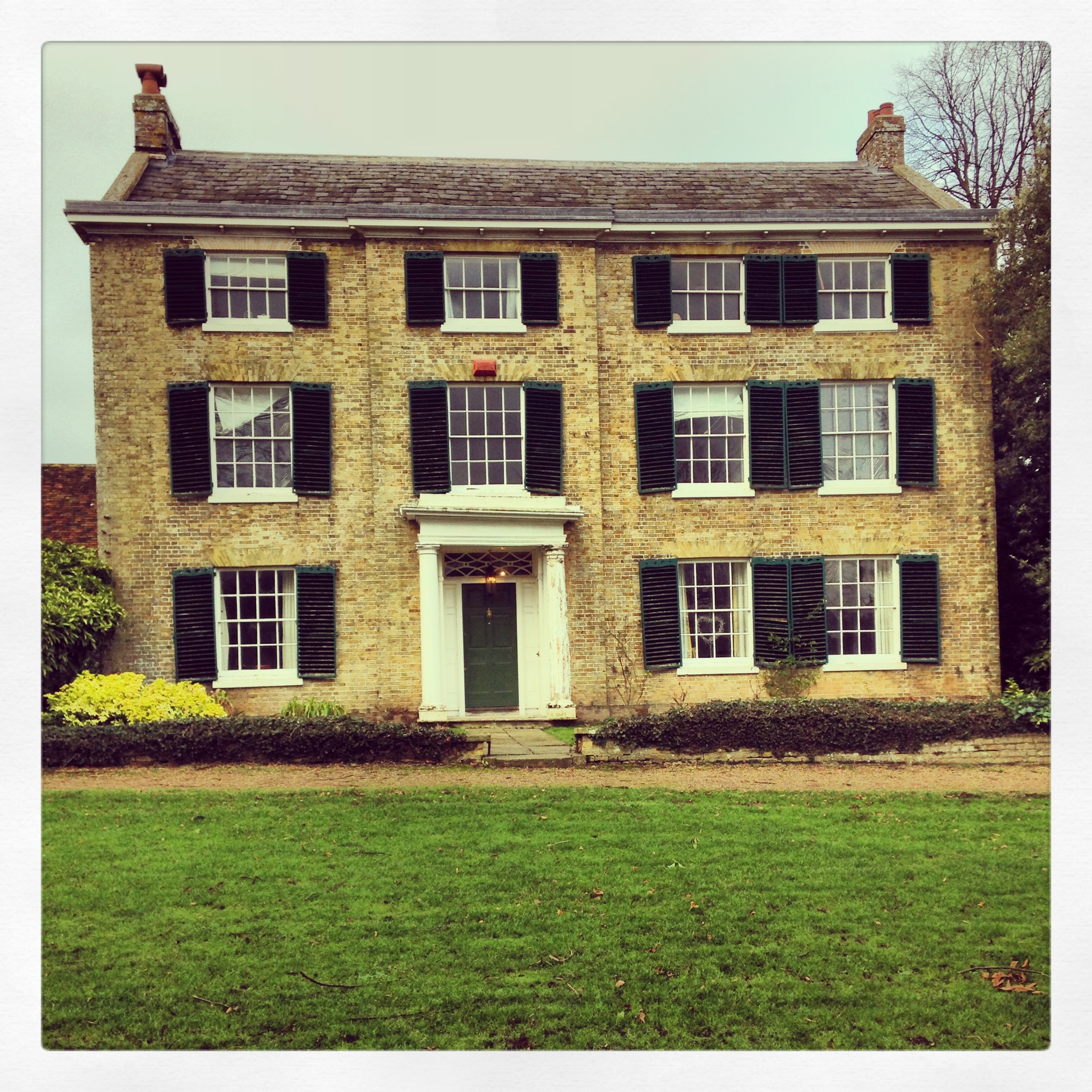 Wickhan Court, Wickhambreaux - Southerly Aspect